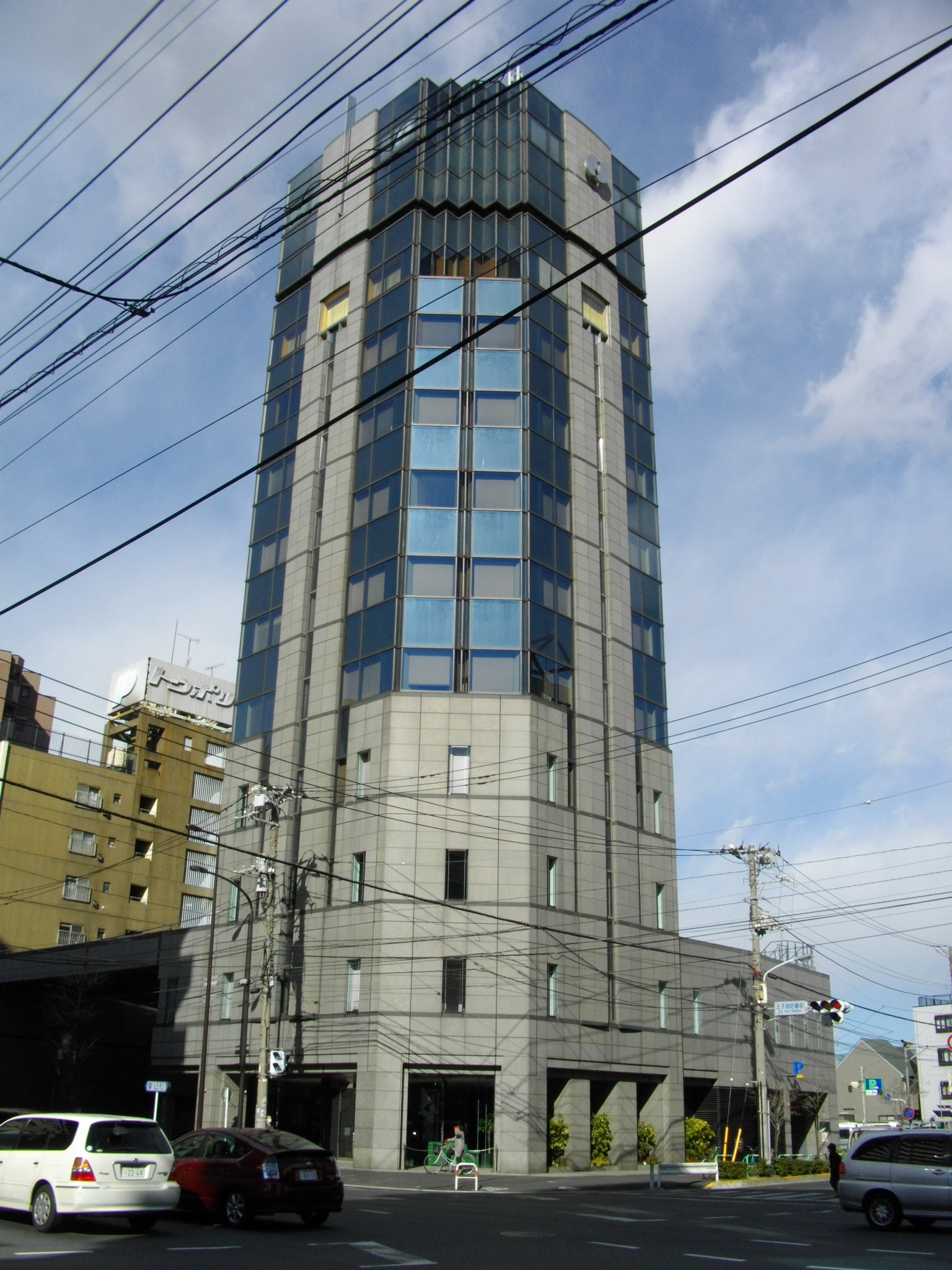 Natori Head Office